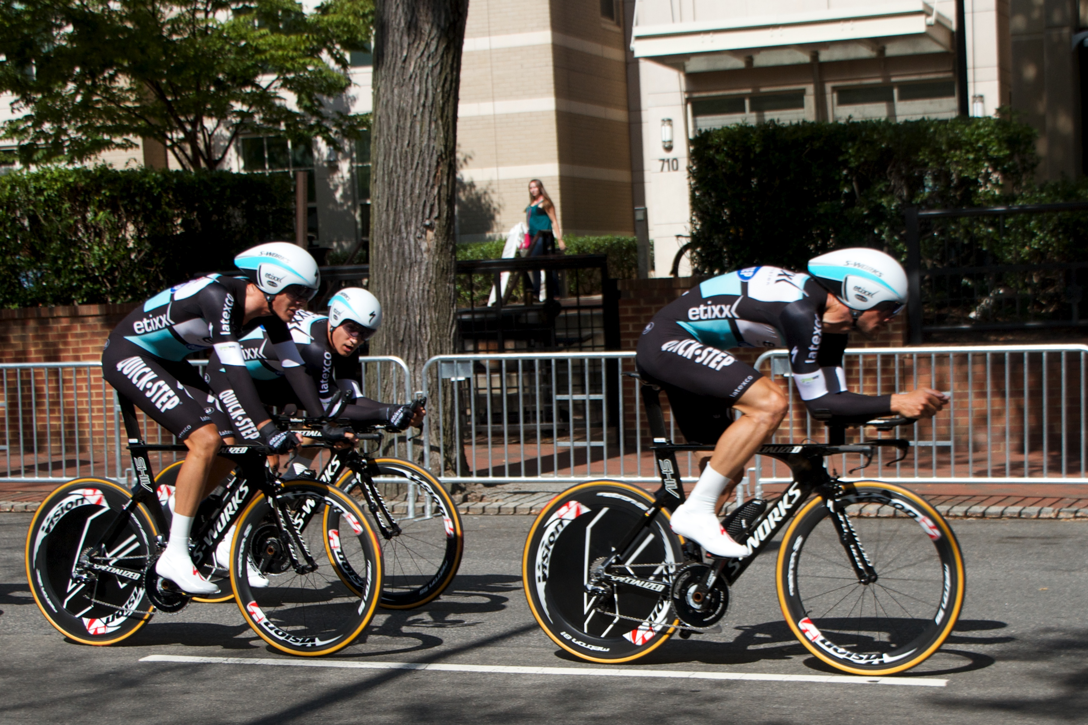 2015 UCI Road World Championships - Men's team time trial - Etixx Quick Step